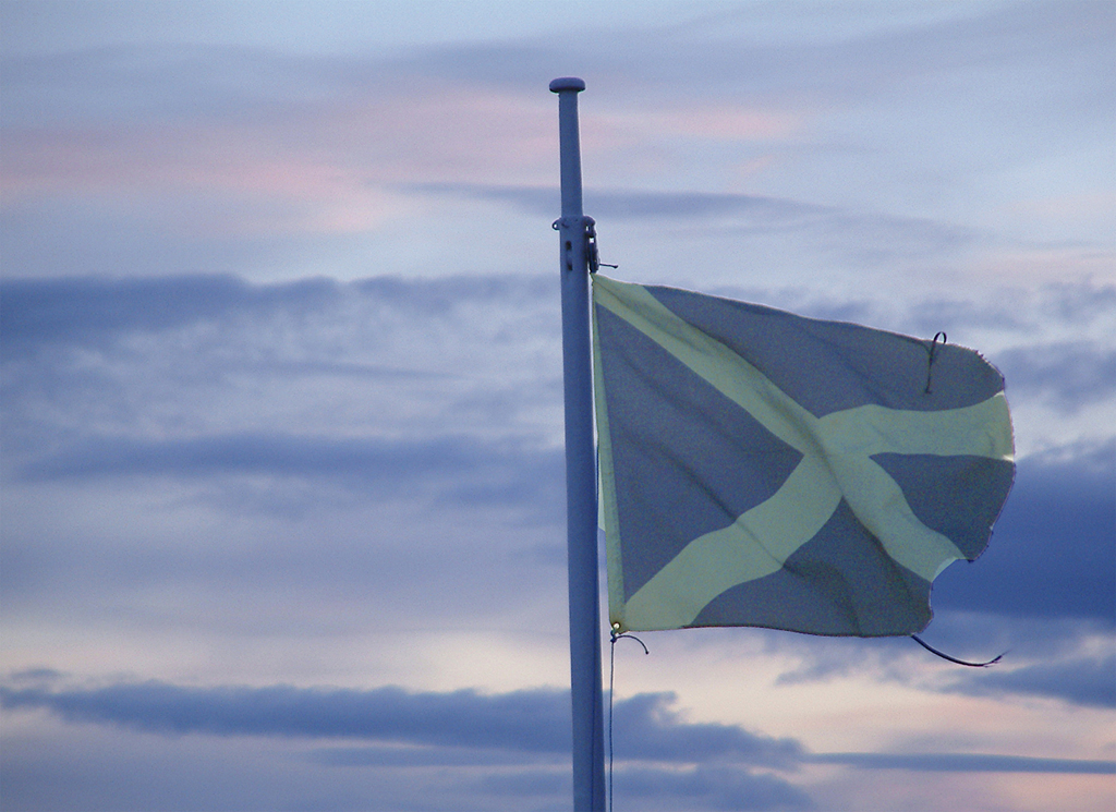 St Andrew's Cross of Scotland in the gloaming